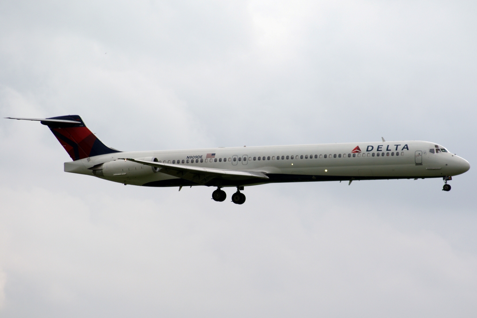 McDonnell Douglas MD-88